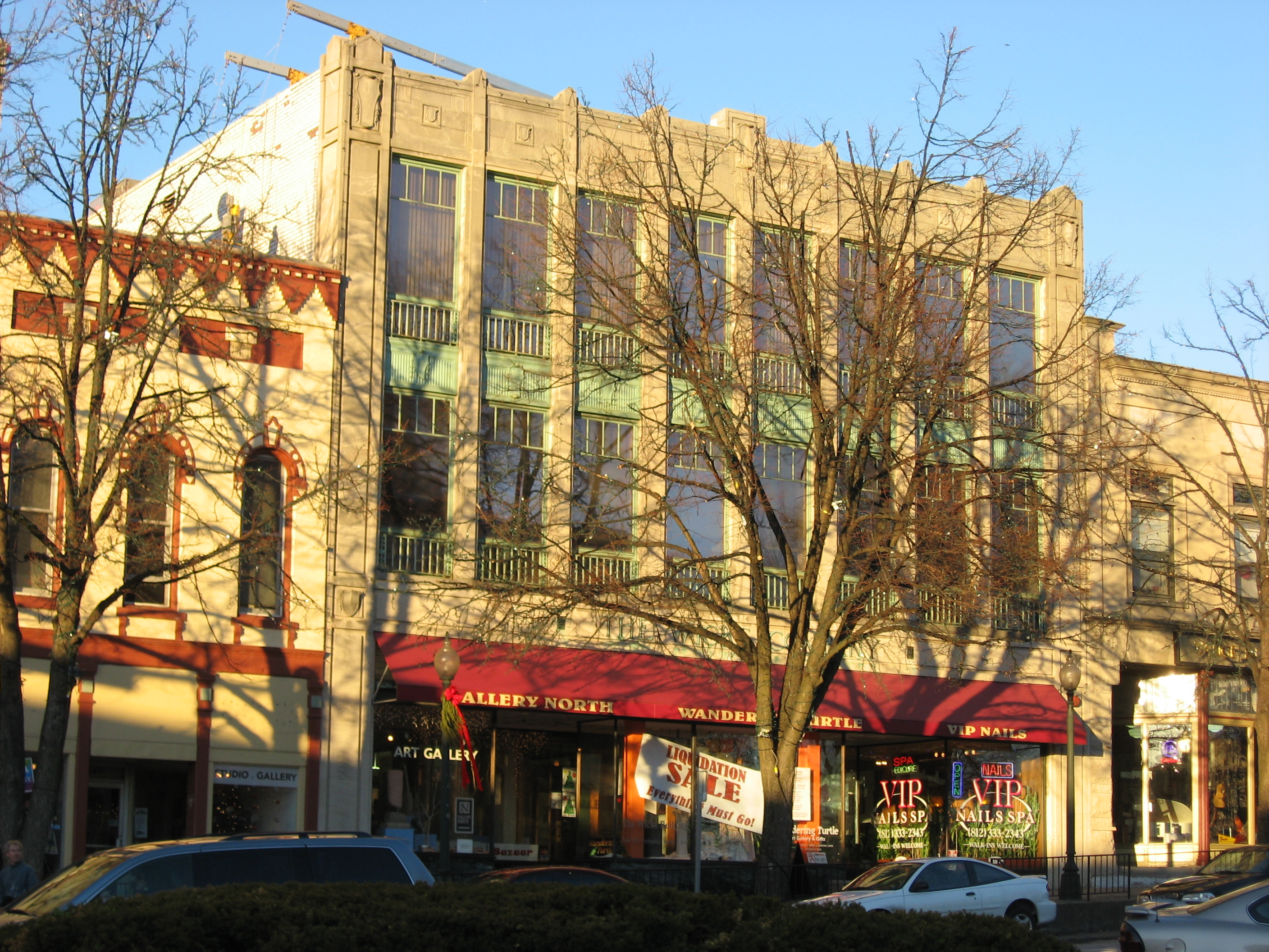 Front of the Wicks Building, located at 116 W. Sixth Street in downtown Bloomington, Indiana, United States. Built in 1915, it is listed on the National Register of Historic Places, and it is part of the Register-listed Courthouse Square Historic District.